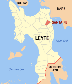 Map of Leyte showing the location of Santa Fe